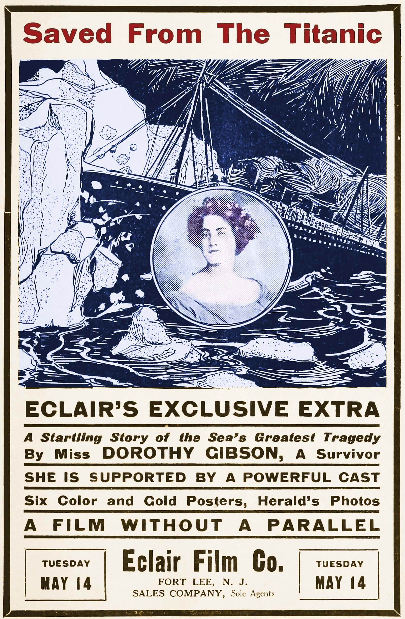 Advertisement for the 1912 film "Saved from the Titanic". This is an EDITED version, it is a simulated color version based on the color version already on Commons.